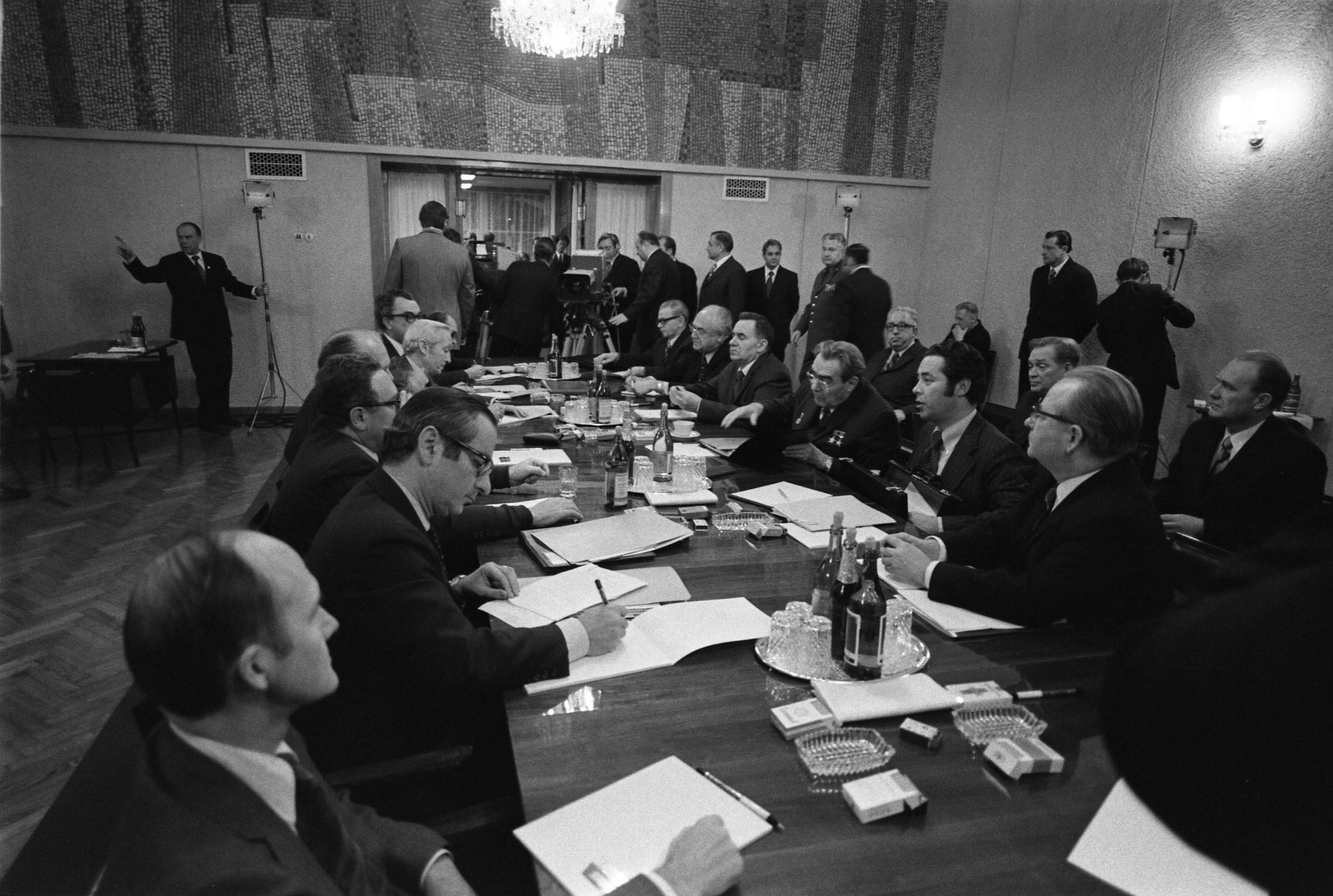 Photograph of the first meeting between President Gerald Ford, General Secretary Leonid Brezhnev, and the Delegations in the Conference Hall at Okeansky Sanatorium, Vladivostok, U.S.S.R.